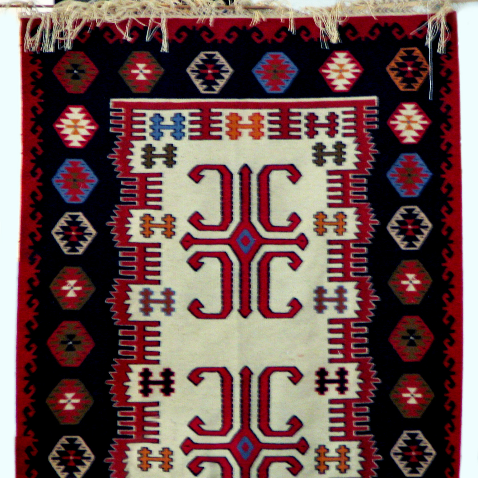 Kilim from Serbia